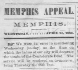 The date given for the first observance of Memorial Day was given as April 25, instead of April 26, 1866 in the Memphis Appeal.